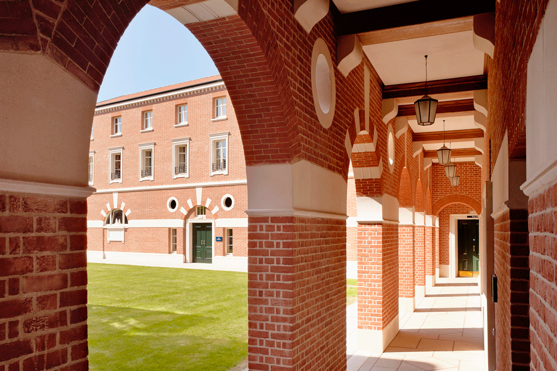 Lannon quad LMH